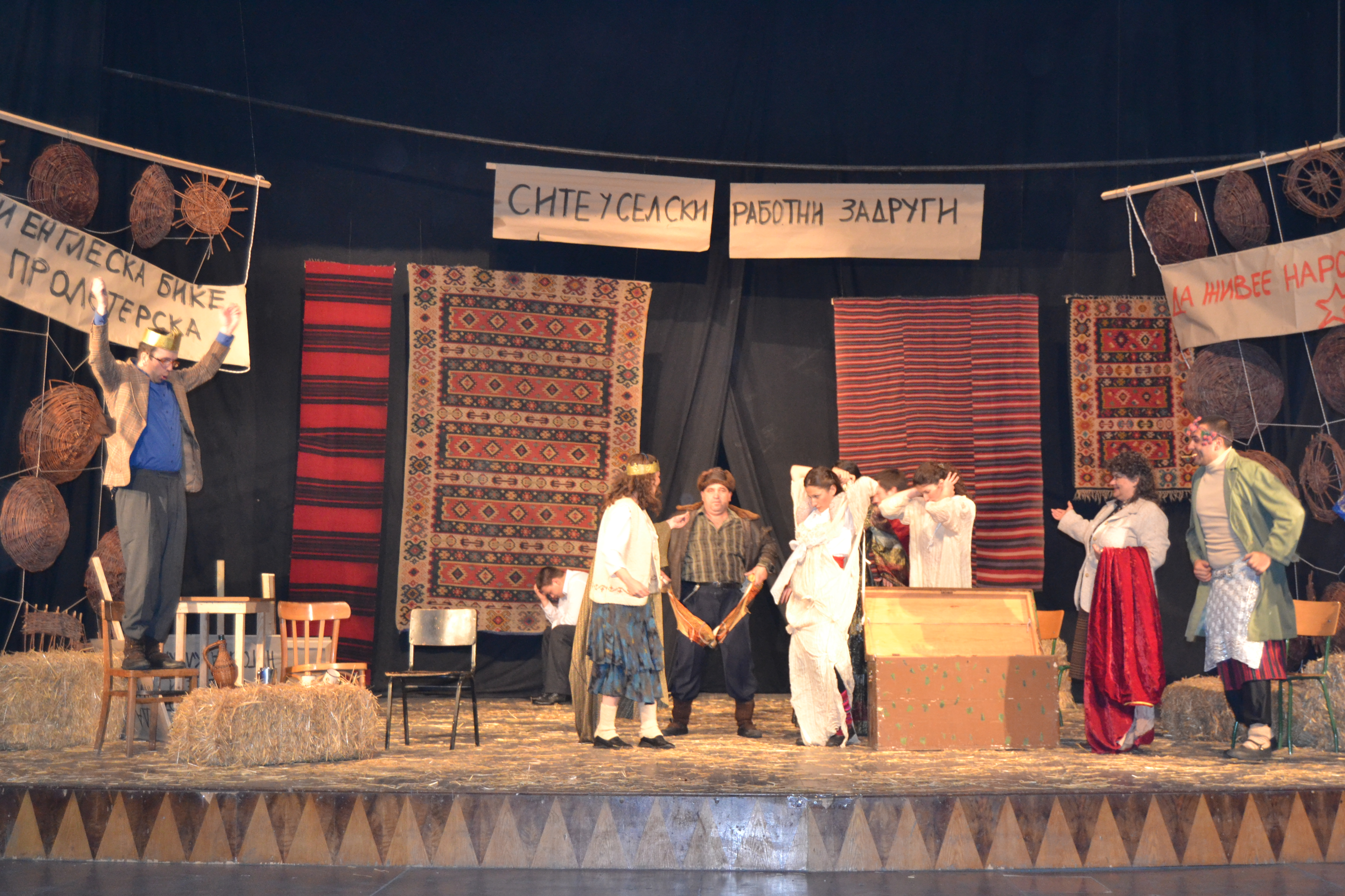 Drama amateur festival, Kocani 2011, Republic of Macedonia